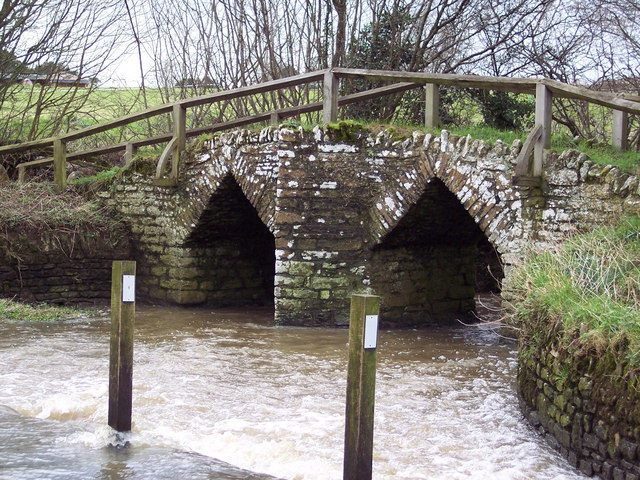 Footbridge over the River Divelish